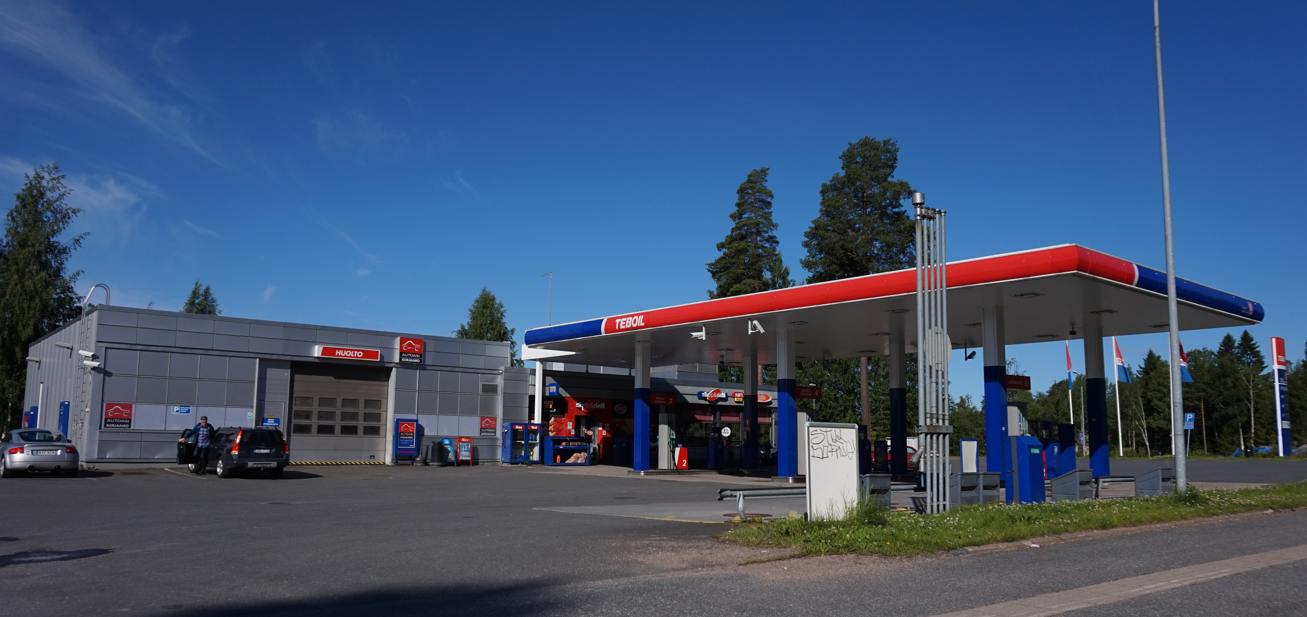 Gas station Teboil in Jyväskylä.This photograph was taken with a Sony ILCE-5000